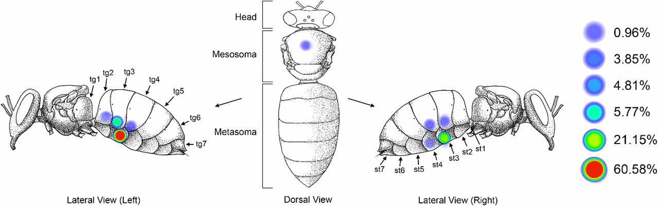 Diagram showing frequency of Varroa destructor mites found in each location on 104 parasitized worker bees in five trials